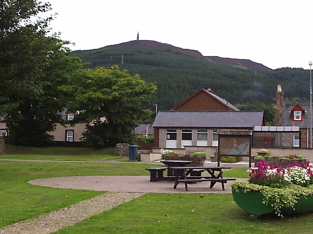 Golspie Picnic Area. Taken right on the shore line and looking up at Ben Bhraggie, with the statue of the Duke of Sutherland on the skyline built there so that he could look down on the people of sutherland.